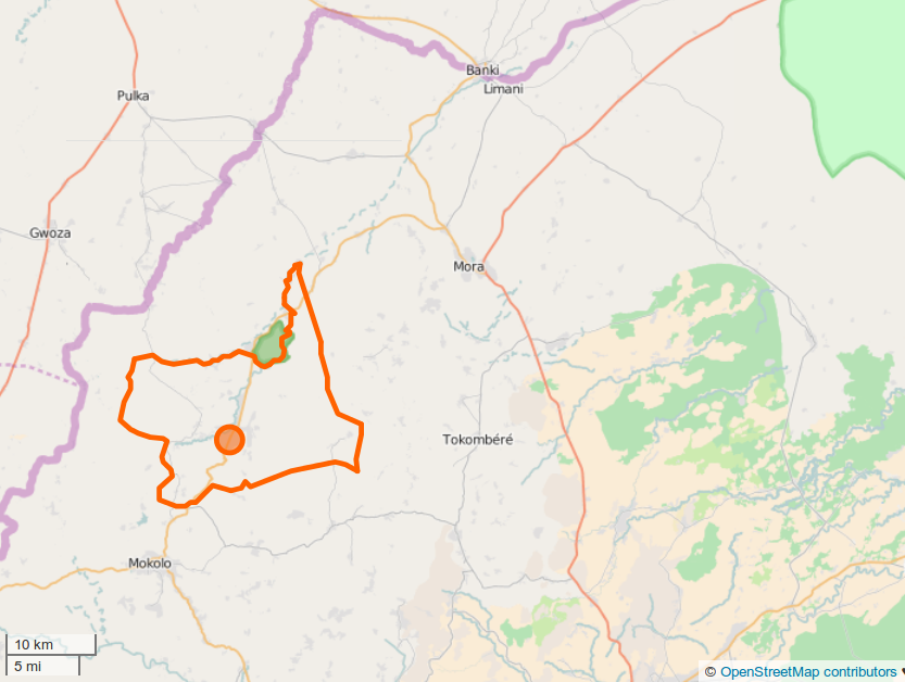 Koza, Cameroon ː boundaries of the commune (OSM). This map may be incomplete, and may contain errors. Don't rely solely on it for navigation.